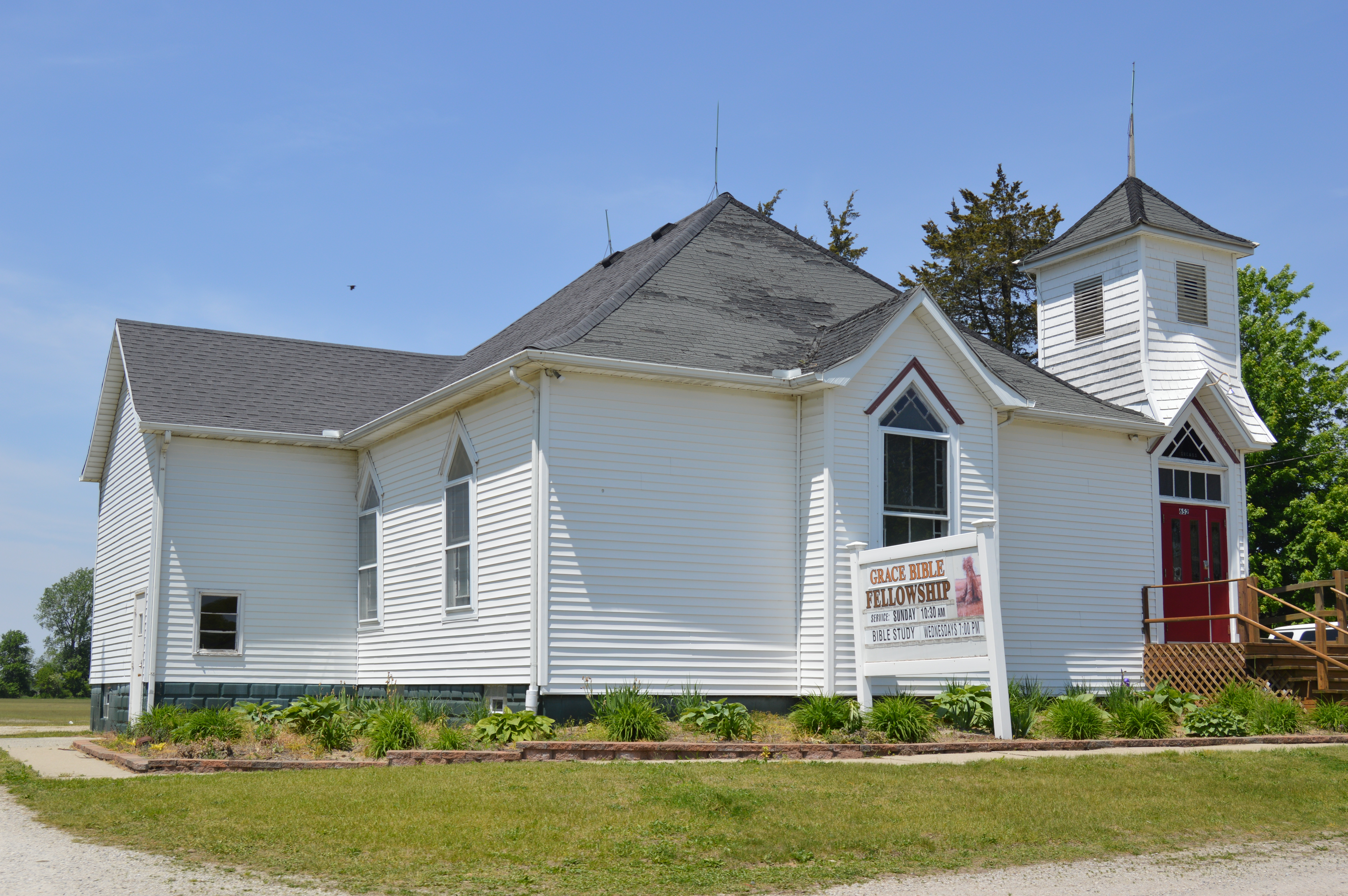 Front and southern side of Grace Bible Fellowship, located at 652 S. Berkey Southern Road (State Route 295) in Harding Township, Lucas County, Ohio, United States.